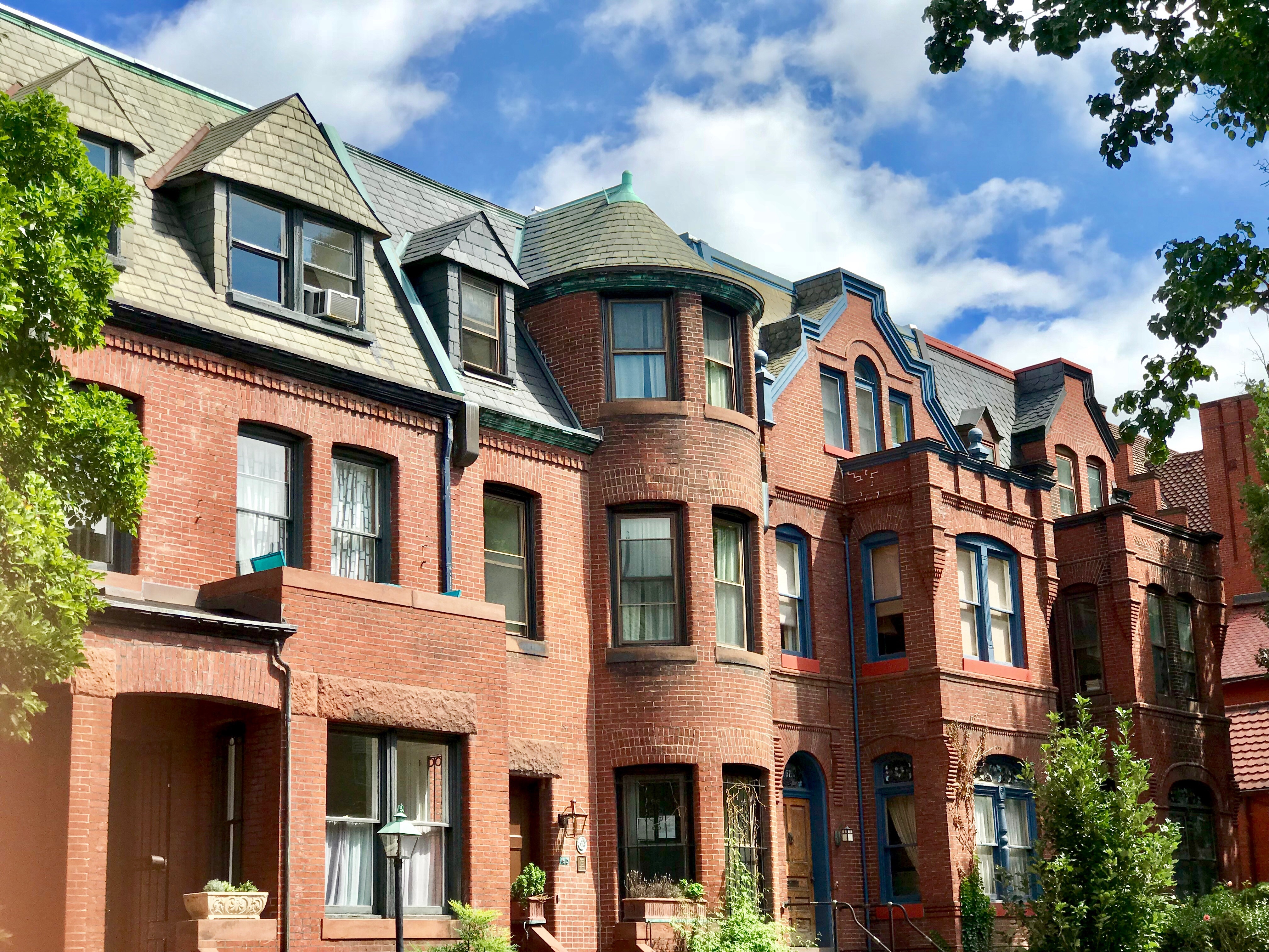 Row homes on the Harvey L. Page block. 1600 block of Riggs Pl NW, Dupont Circle.